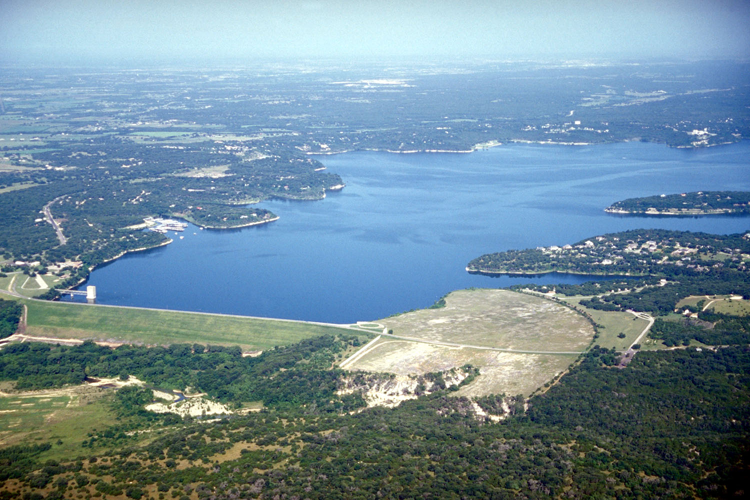 Aerial view of Belton Lake and Dam on the Leon River in the Brazos River Basin in Bell County, Texas, USA. The U.S. Army Corps of Engineers constructed the dam on the river in 1954 for flood control and water supply. County Road 2271 crosses the dam. View is to the west. Coordinates: 31°06′31.68″N 97°28′21.02″W / 31.1088°N 97.4725056°W